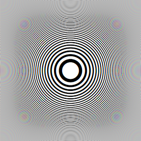 Newton Rings